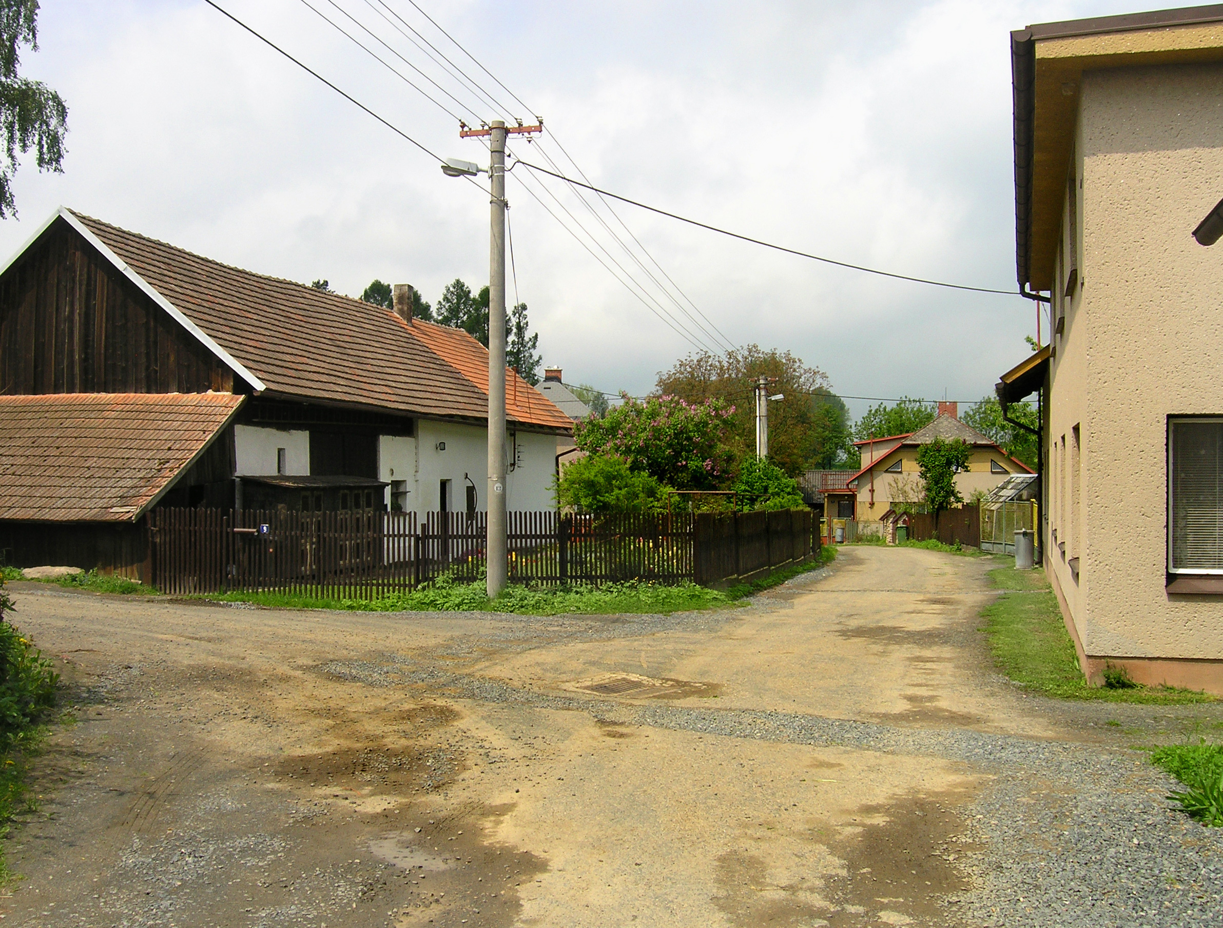 Klouzovy, part of Chotěboř town, Czech Republic